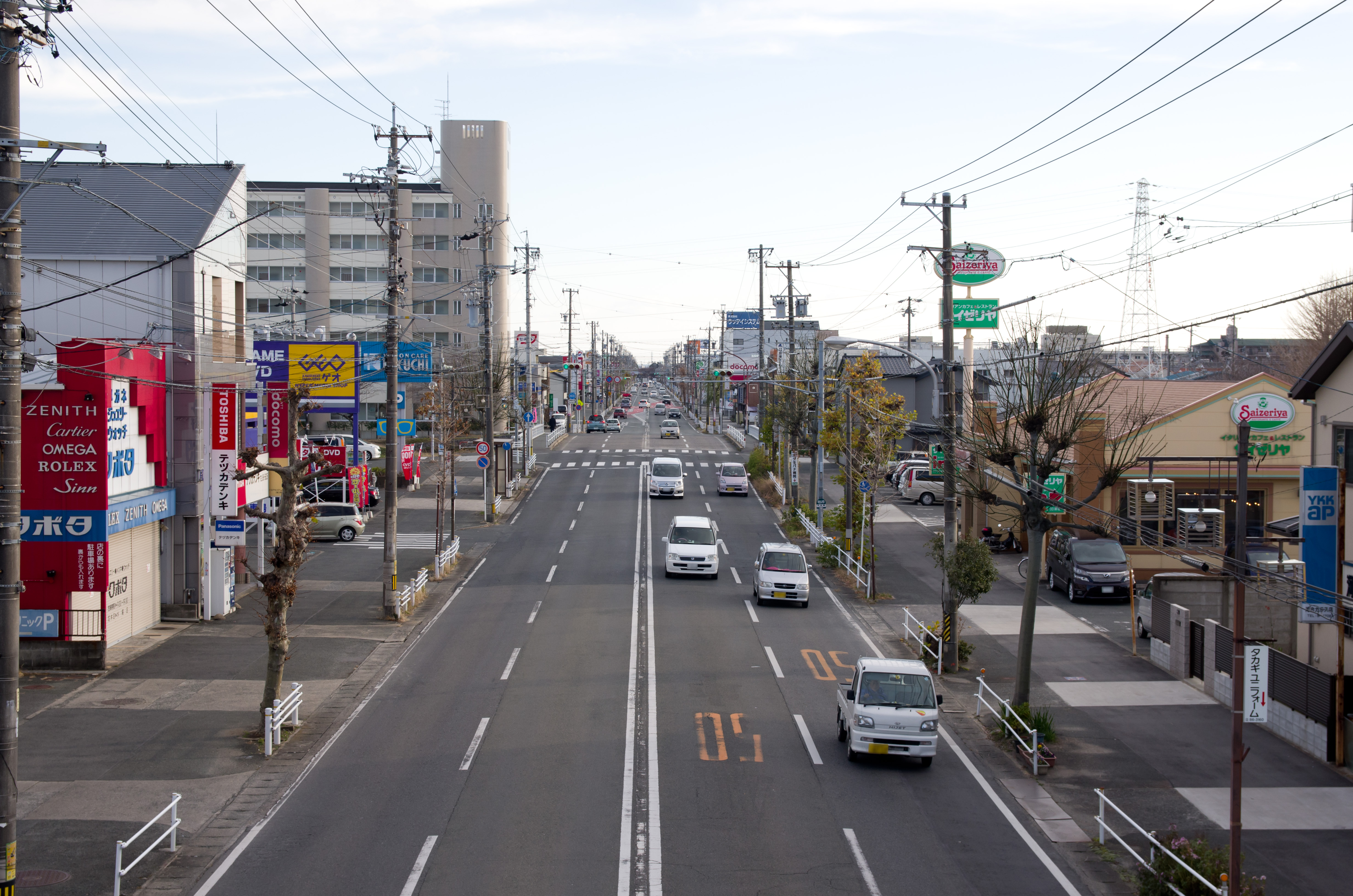 The Aichi Prefectural Road Route 400, north side of Daida Bridge in Toyokawa City